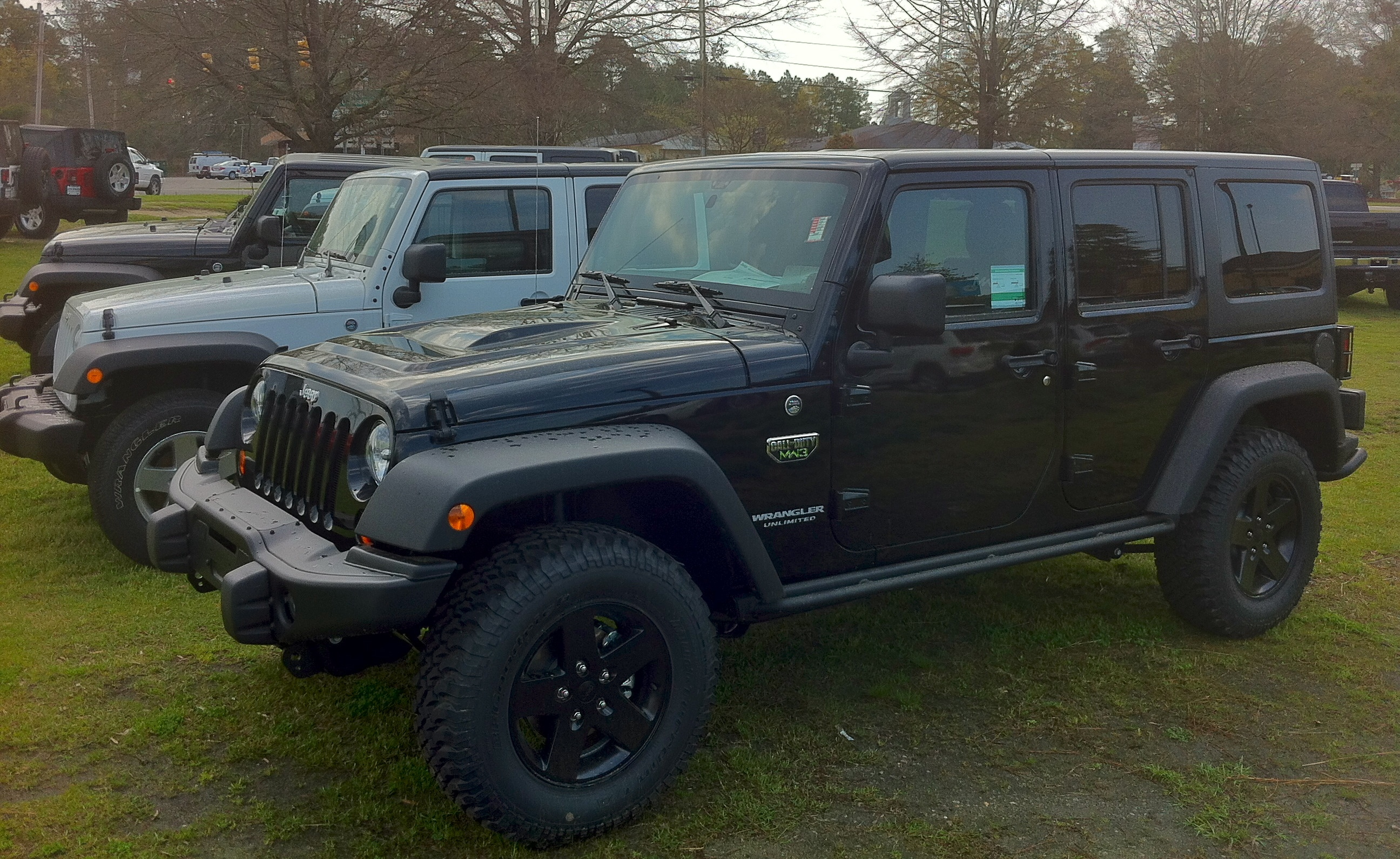 2012 Jeep Wrangler (JK) Unlimited with the Call of Duty: MW3 Special Edition package. Black 4-door. Picture taken in Aberdeen, North Carolina.